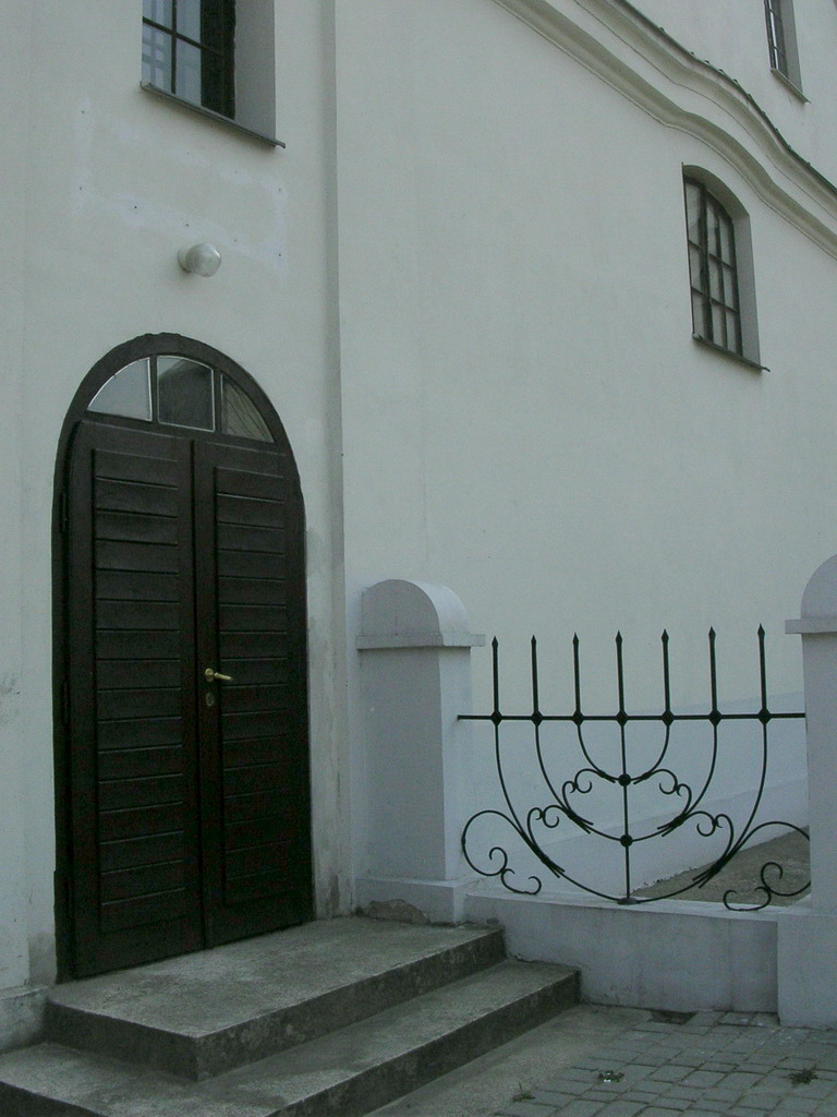 Small Synagogue in Włodawa, Poland. Doors with a fragment of a gate.